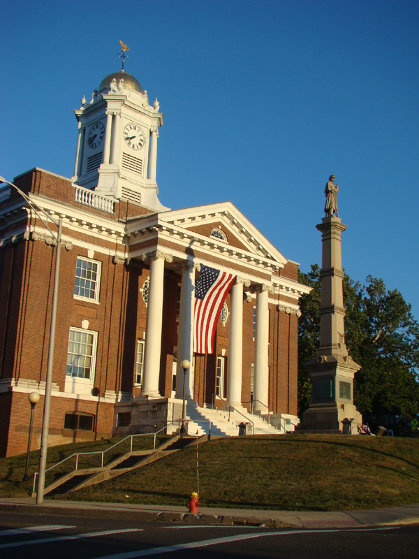 2015 photo of Meriden City Hall (1907) with Civil War monument in the foreground.